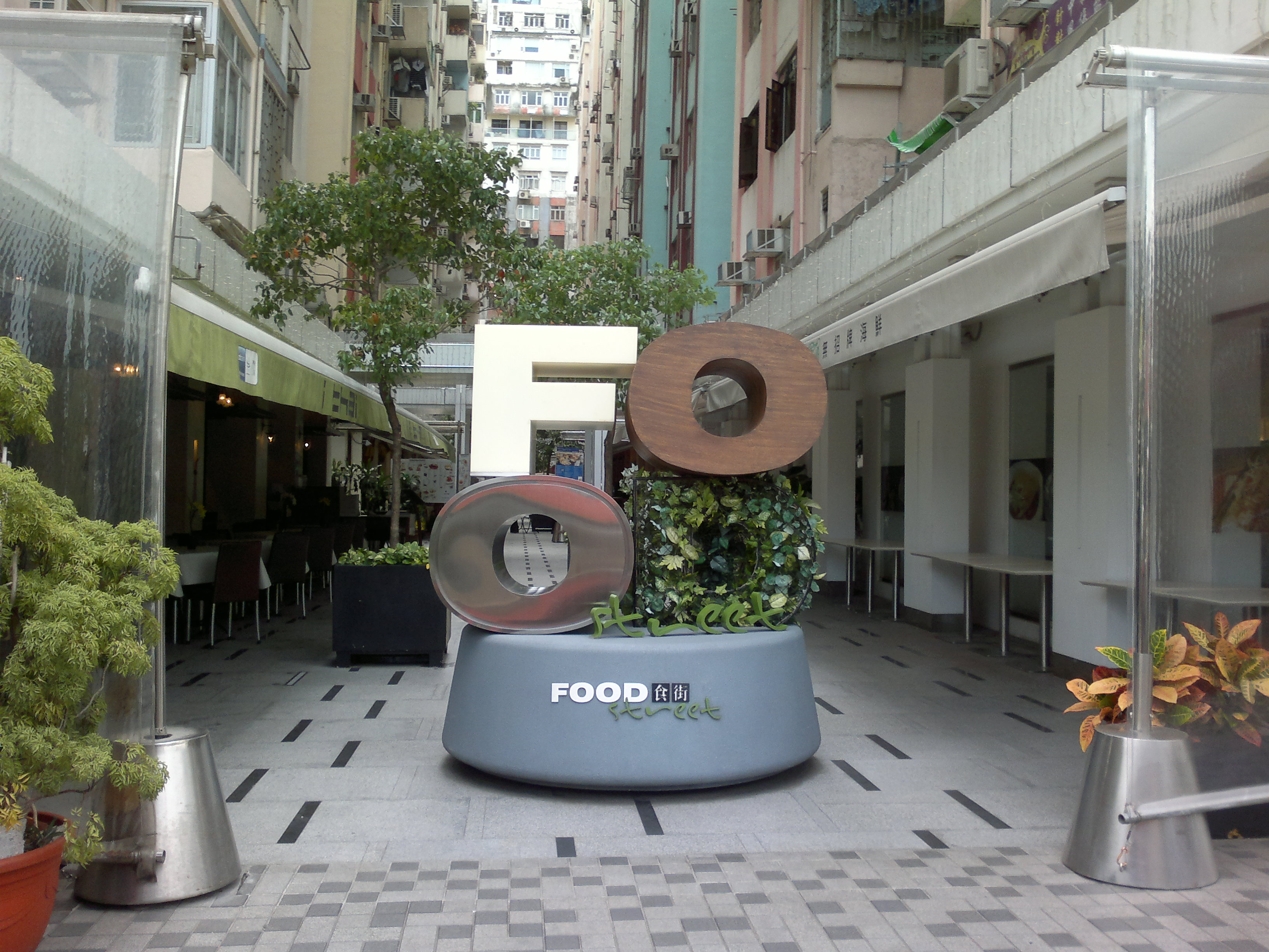 Food Street Hong Kong Entrance